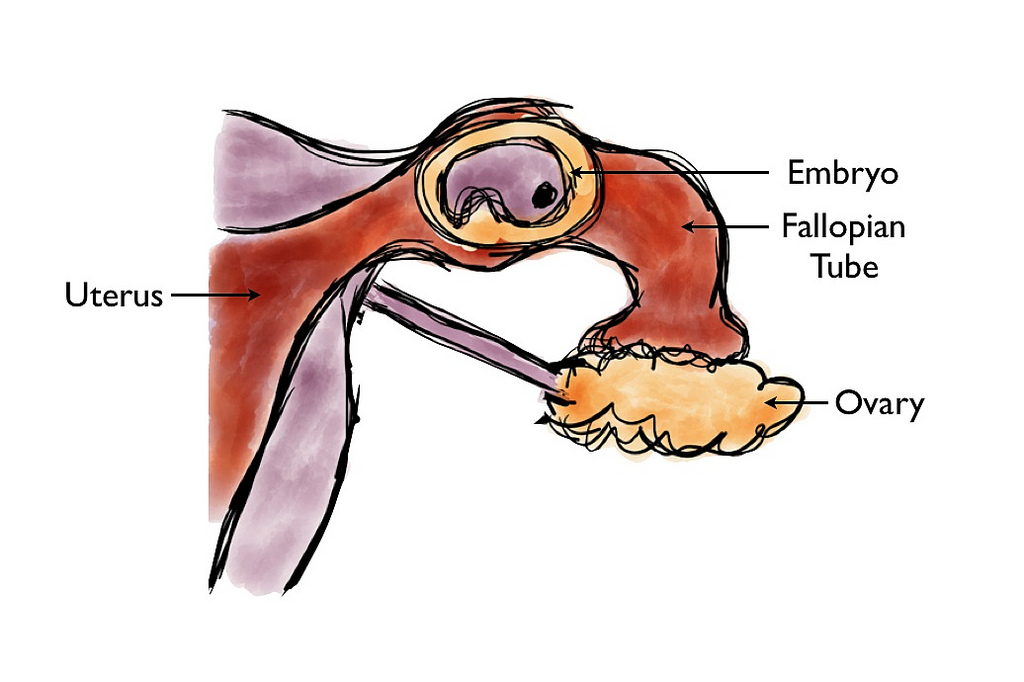 This is a diagram of an Ectopic pregnancy, showing the fetus in the fallopian tube.